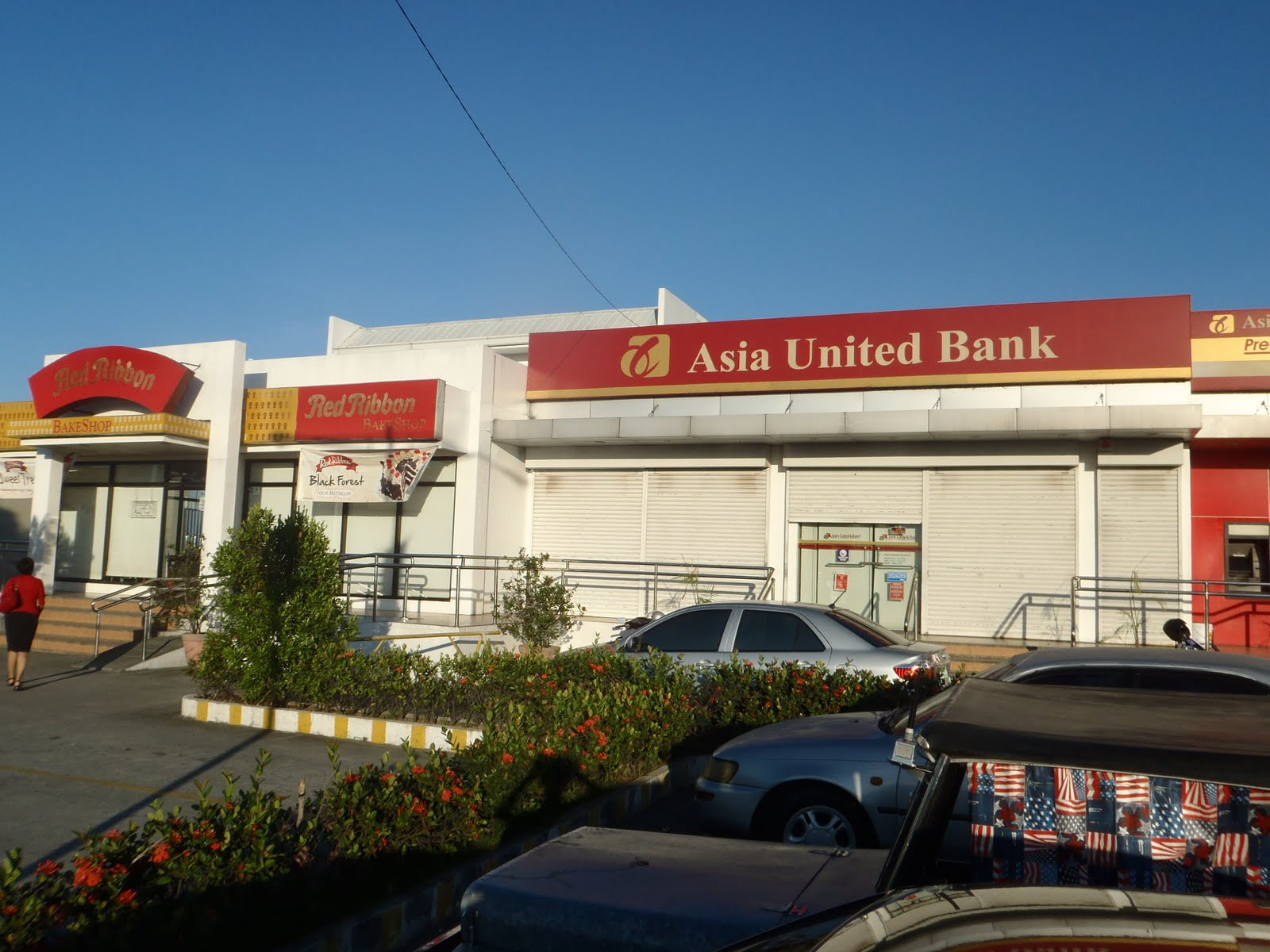 Red Ribbon and Asia United Bank